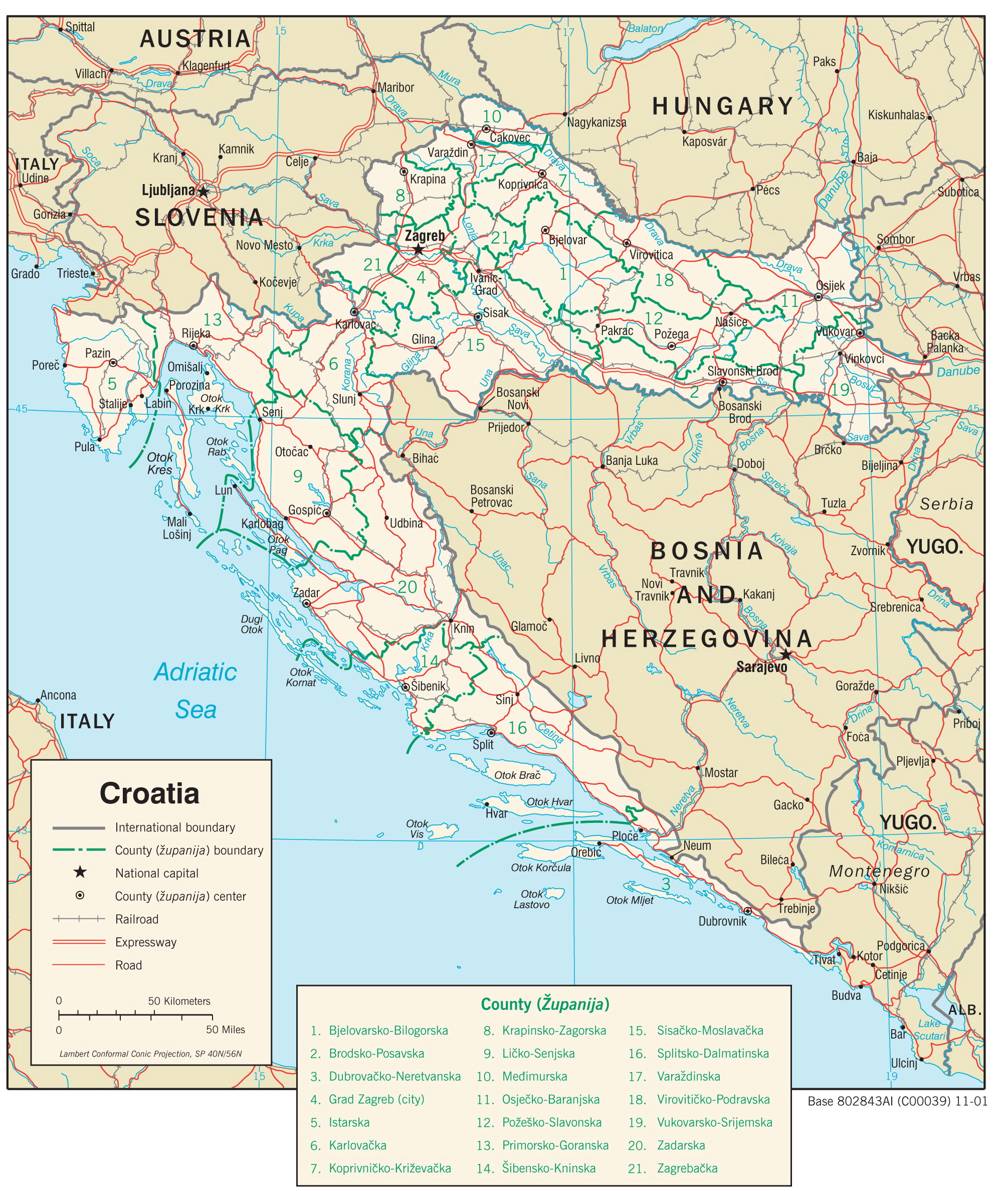 Transport system in Croatia, 2001.